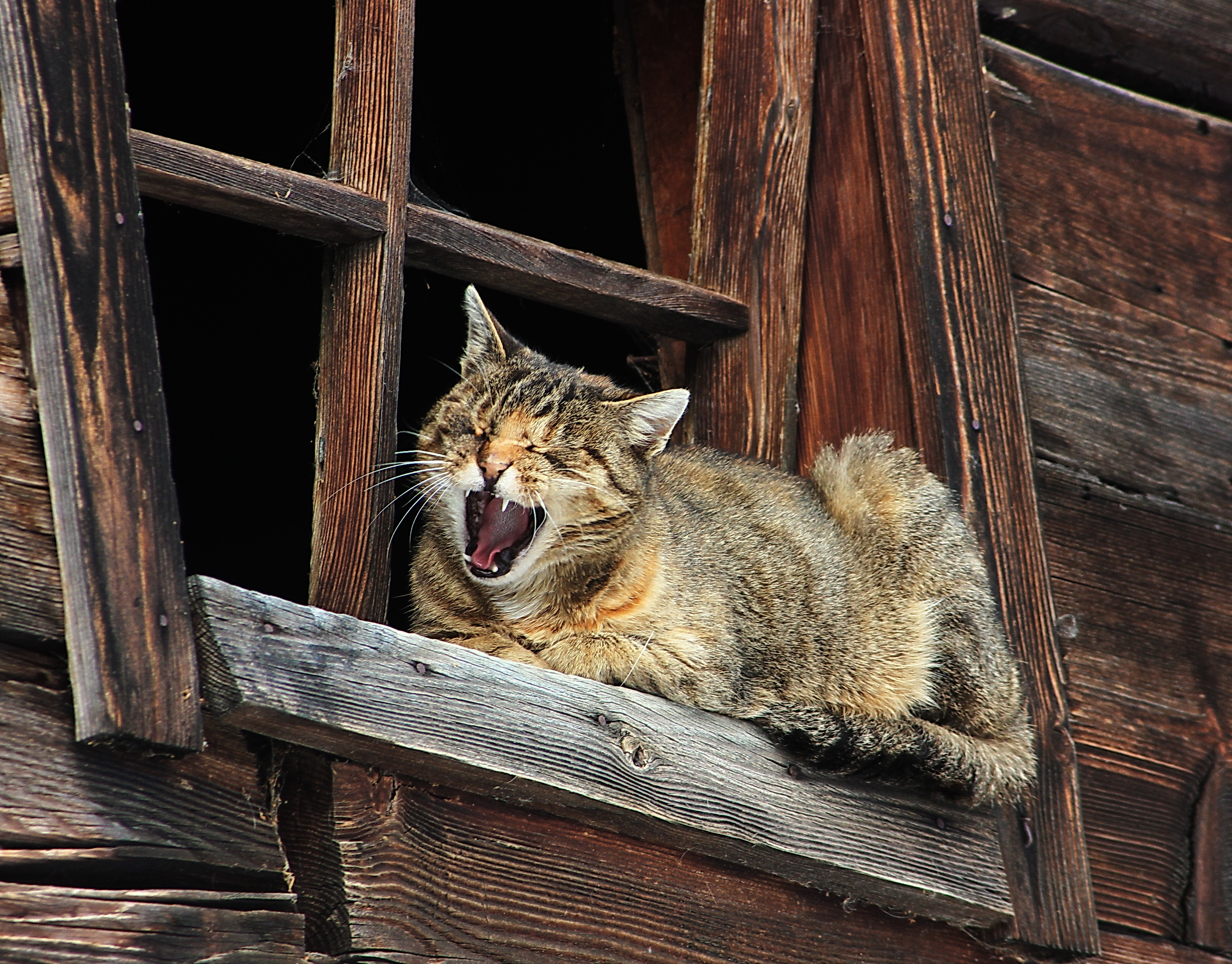 Cat at a barn window in the sun in Grossarl, Austria